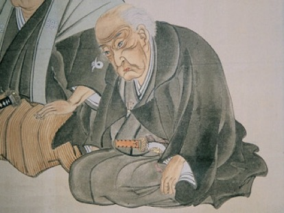 Matsura Seizan, detail of a painting of Matsura Seizan with Oseki Masunari and Sanada Yukitsura, Matsura Historic Museum, Hirado, Nagasaki, Japan